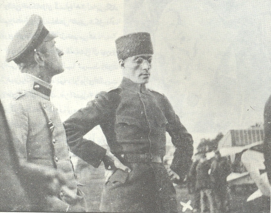 Colonel Mohammad Taqi-Khan Pessian (1892 - 1921) In Pilot training in Germany. He was sirst Iranian Pilot academically.